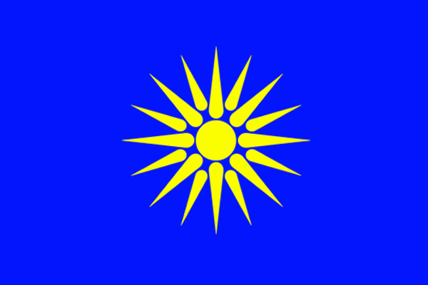 Flag of Macedonia